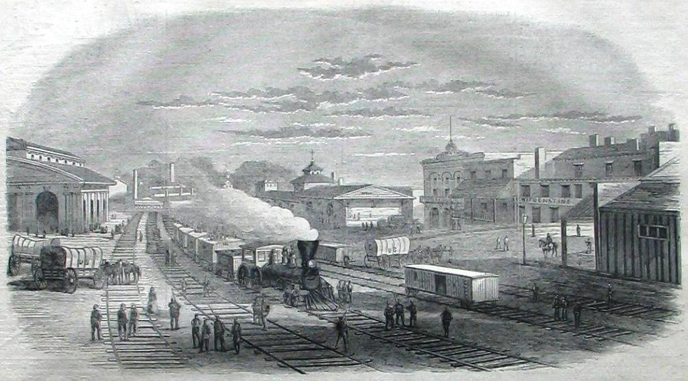 View in Atlanta, Georgia, a wood engraving sketched by D. R. Brown and published in Harper's Weekly, November 26, 1864.